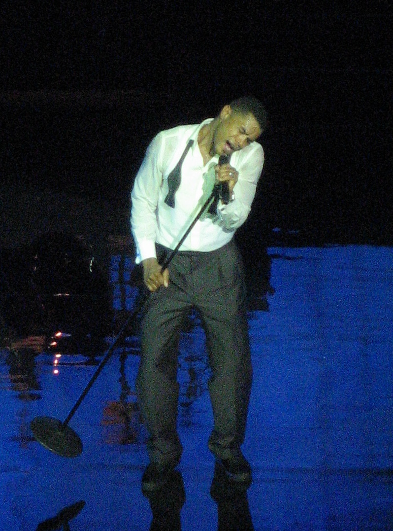 Maxwell performing at Massey Hall Toronto, Canada on October 12, 2008